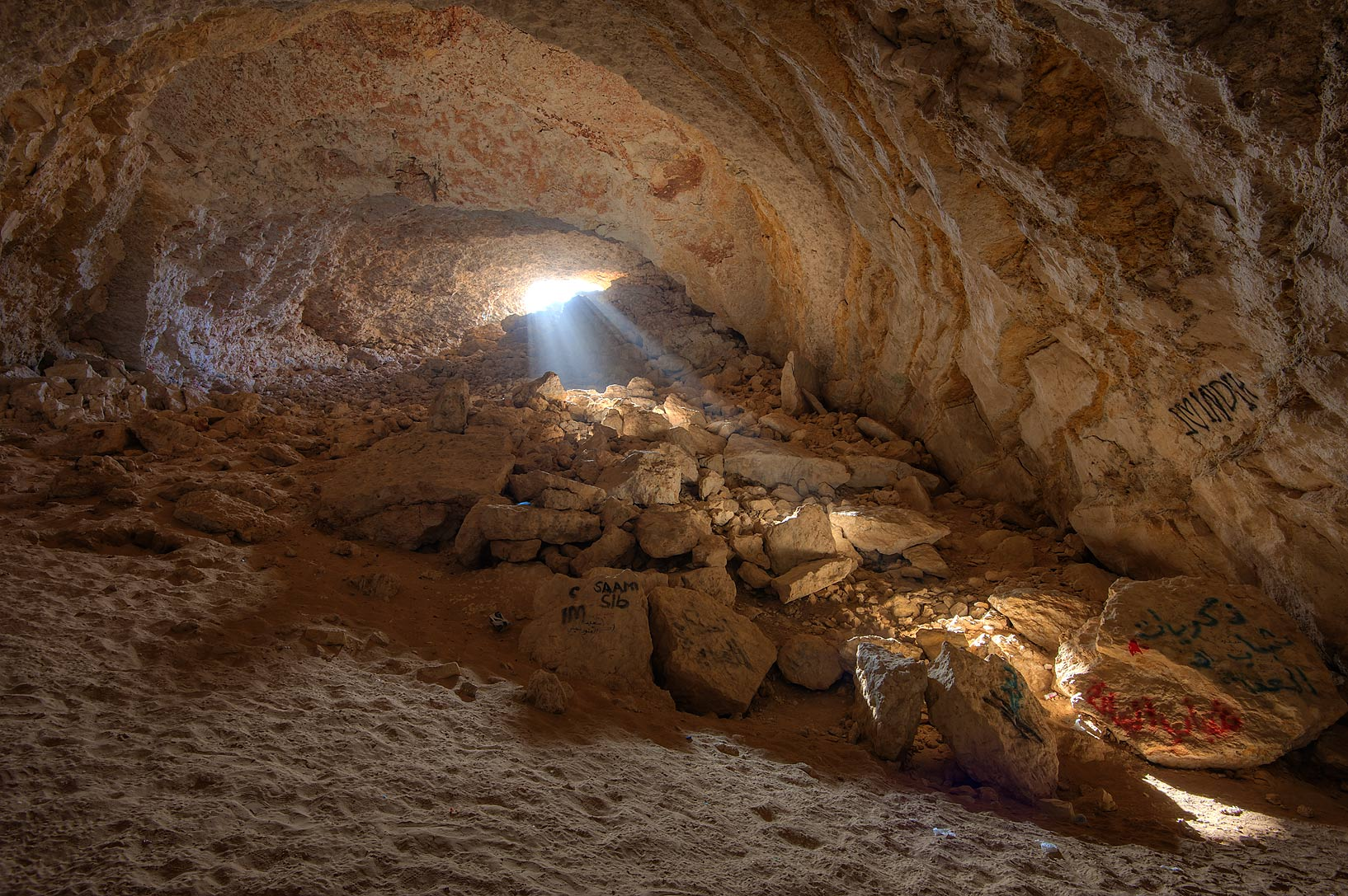 Dhal Al Misfir Cave in Qatar, near Rawdat Rashed.